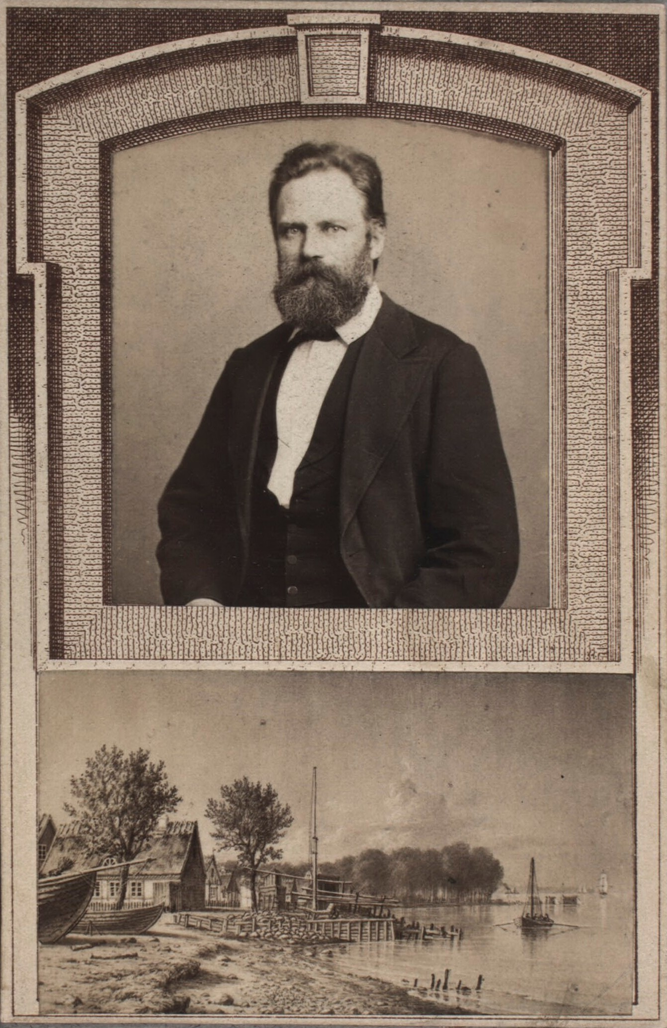 Carl Baagøe (1829-1902), Danish marine painter